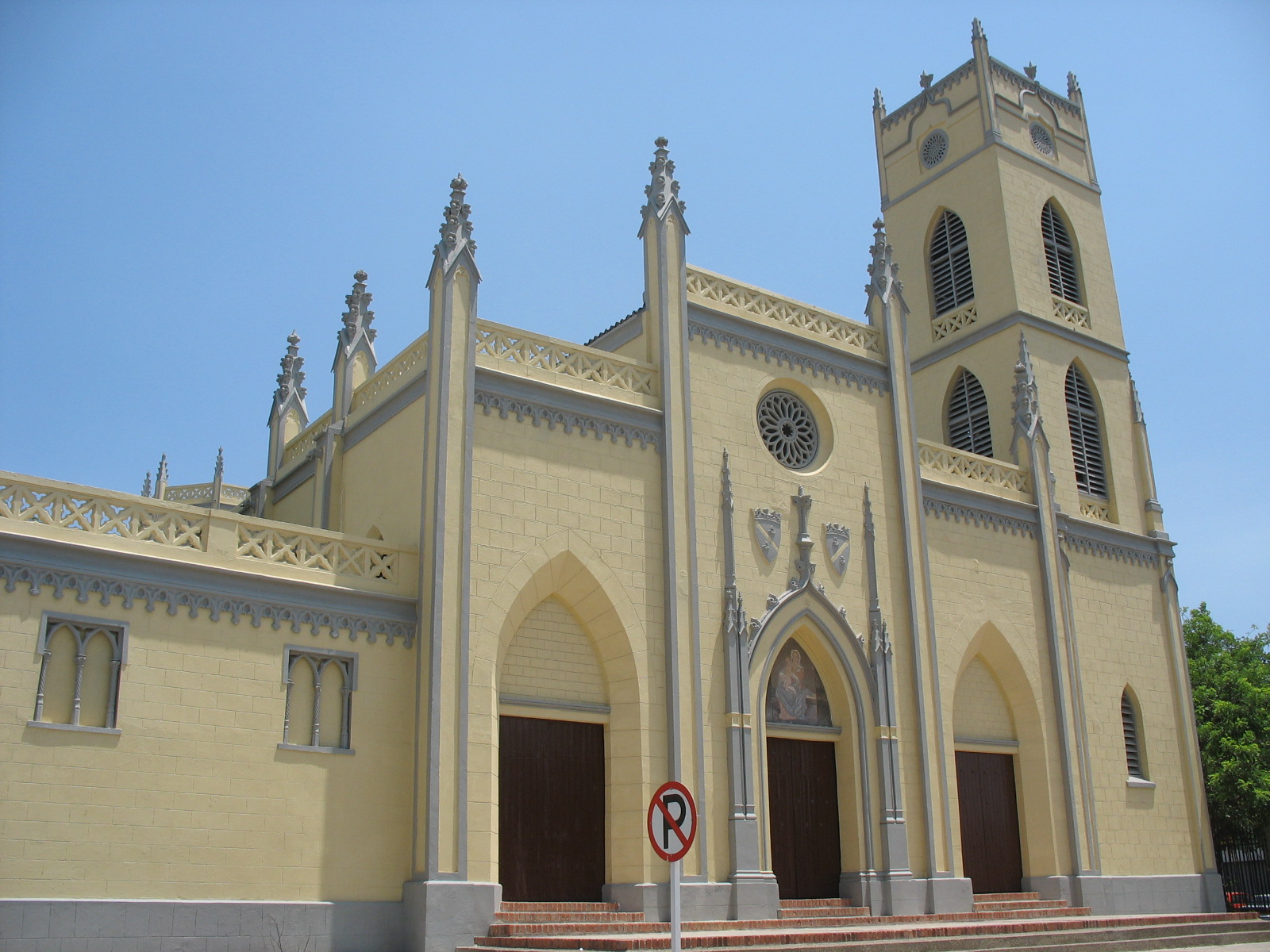 Barranquilla Iglesia del Rosario